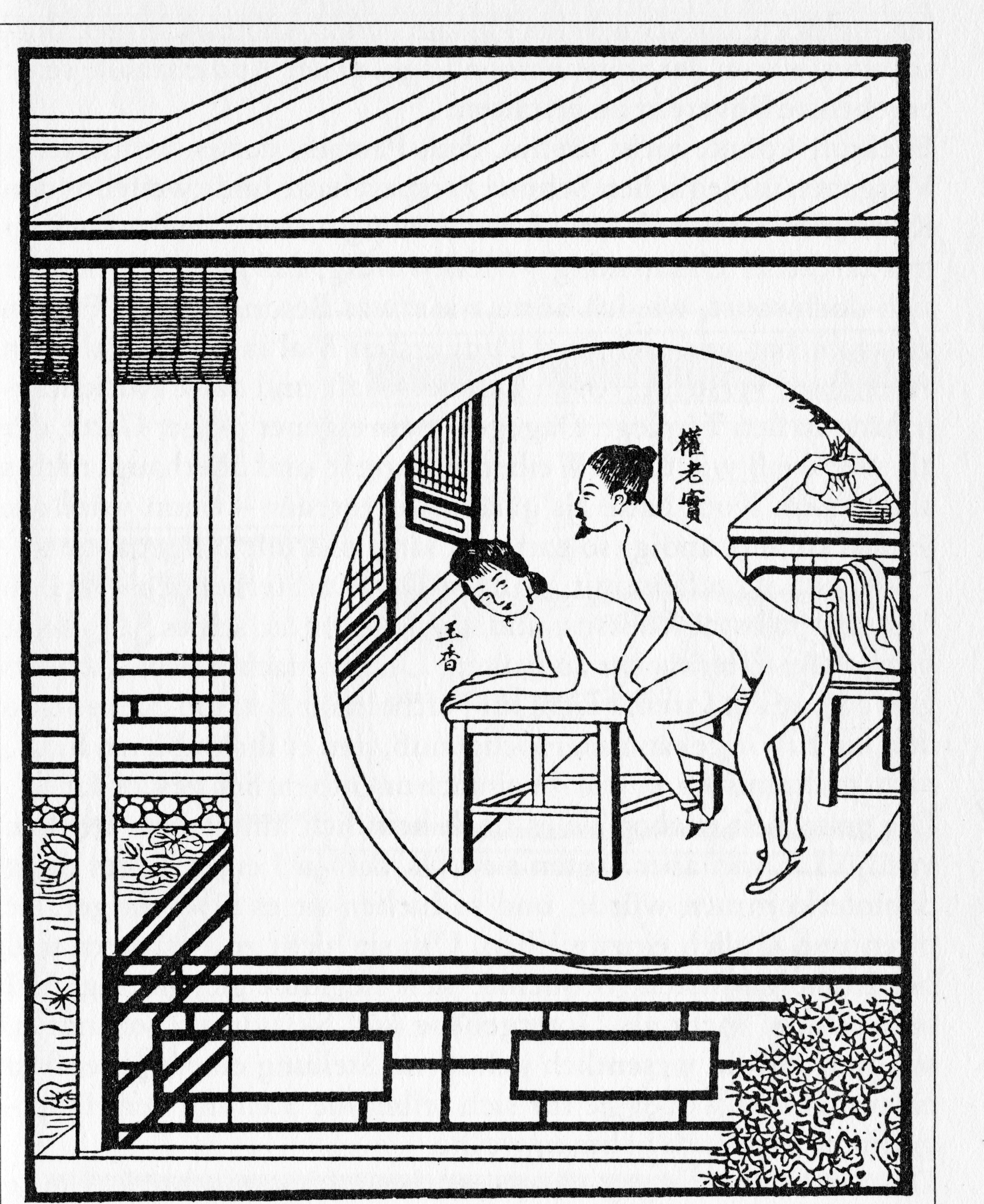 woodcut to 1894 edition of Rouputuan by Li Yu